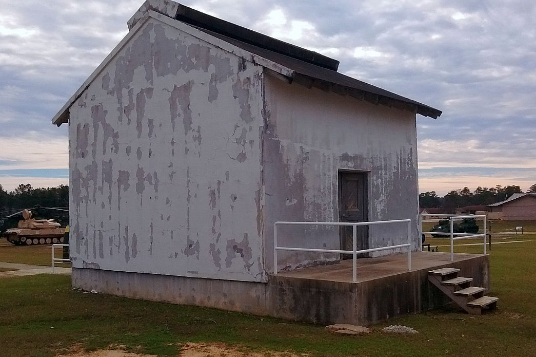 Building 6981, Camp Shelby is located on the grounds of the Mississippi Armed Forces Museum at Camp Shelby in Forrest County, Mississippi